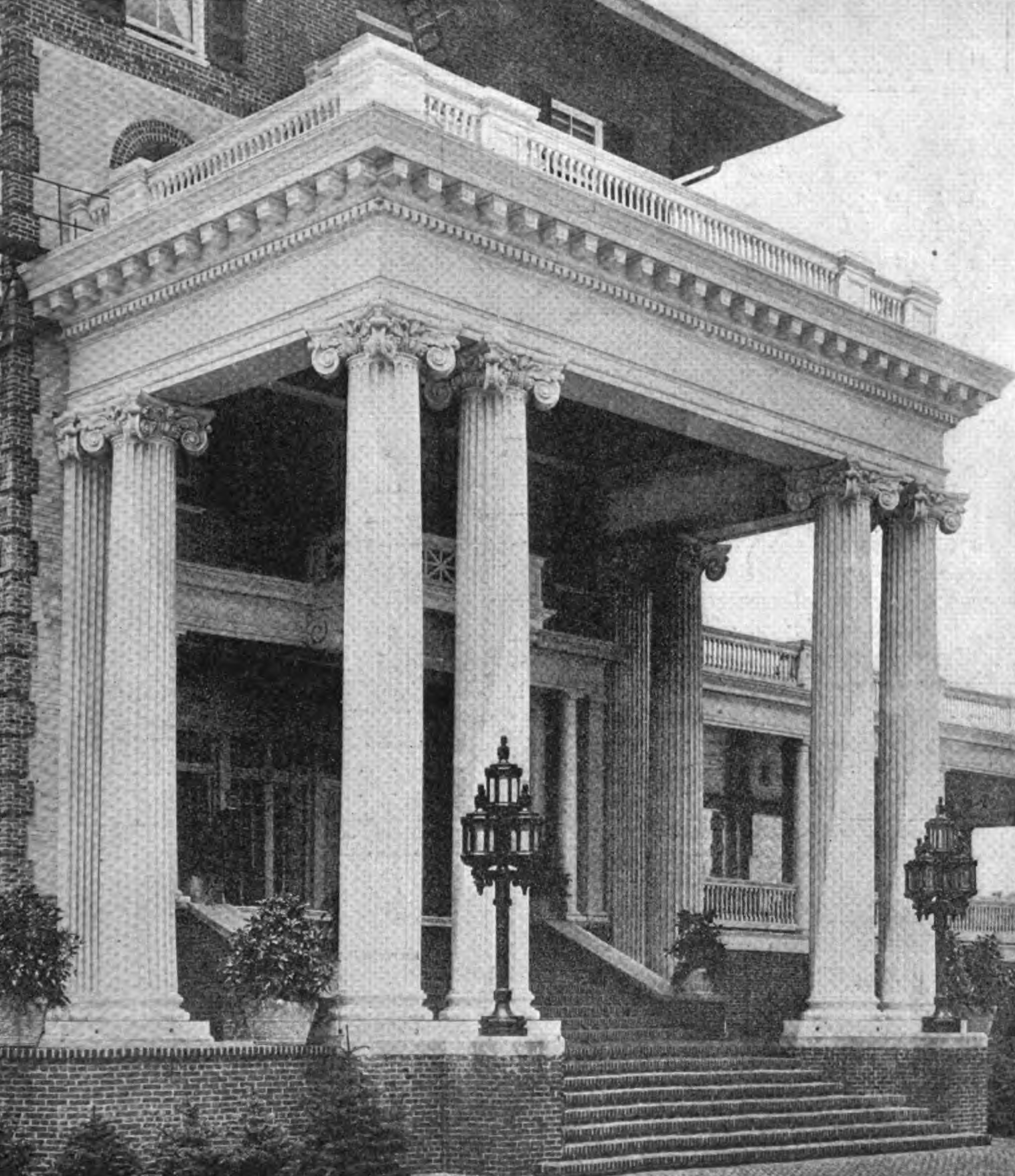 The ocean entrance to the new Monmouth Hotel in Spring Lake, 1916.; Watson & Huckel, architects.